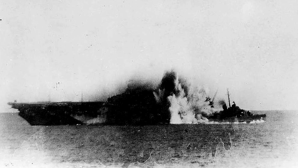 On 20 March 1945, the U.S. Navy destroyer USS Halsey Powell (DD-686) was alongside the aircraft carrier USS Hancock (CV-19) when Japanese aircraft attacked. As the destroyer was getting clear, an aircraft overshot the carrier and crashed on Halsey Powell. Her steering gear jammed, but alert action with the engines averted a collision. Fires were put out, and although 9 were killed and over 30 wounded in the attack the ship reached Ulithi on 25 March. Halsey Powell arrived at San Pedro, California (USA), for battle repairs on 8 May, and sailed again for Pearl Harbor on 19 July 1945.